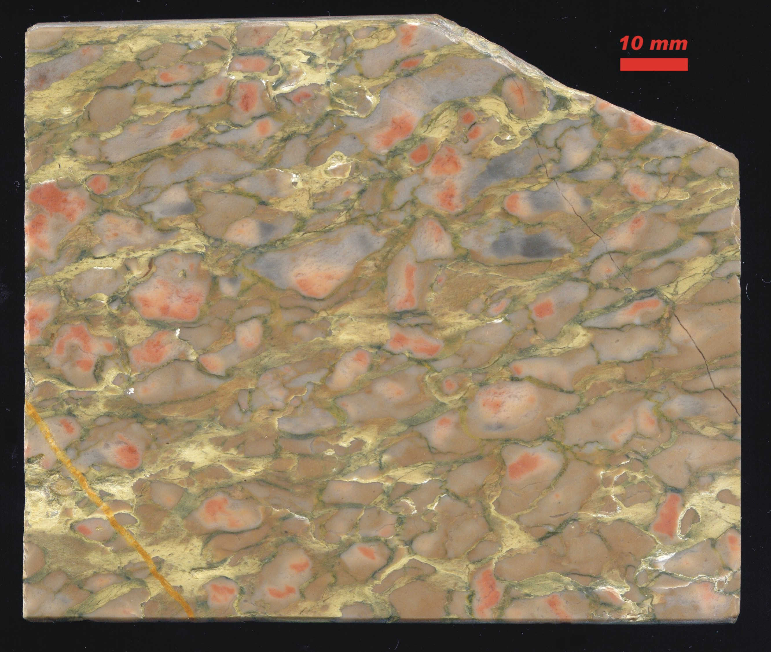 Polished slab of Devonian nodular limestone from the Wildenfelser Zwischengebirge (Saxony, Germany)